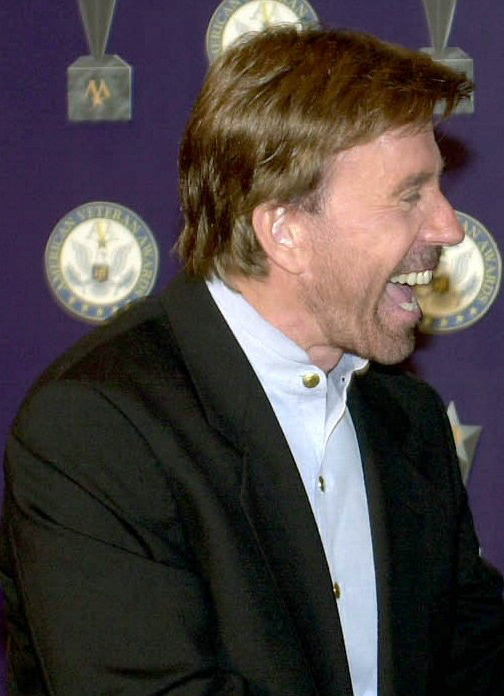 Further cropped version of Image:Chuck Norris award 2.jpg